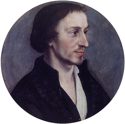 Portrait of Philipp Melanchthon. Oil and tempera on oak, diameter 9 cm, Lower Saxony State Museum, Hanover. Philipp Melanchthon (1497–1560) was a theologian and one of the leaders of the German Reformation. It is unlikely Holbein ever met him; and he may have based this portrait on pictures by Cranach or Dürer (Buck, p. 71). Holbein also painted a decorative lid for this small painting.